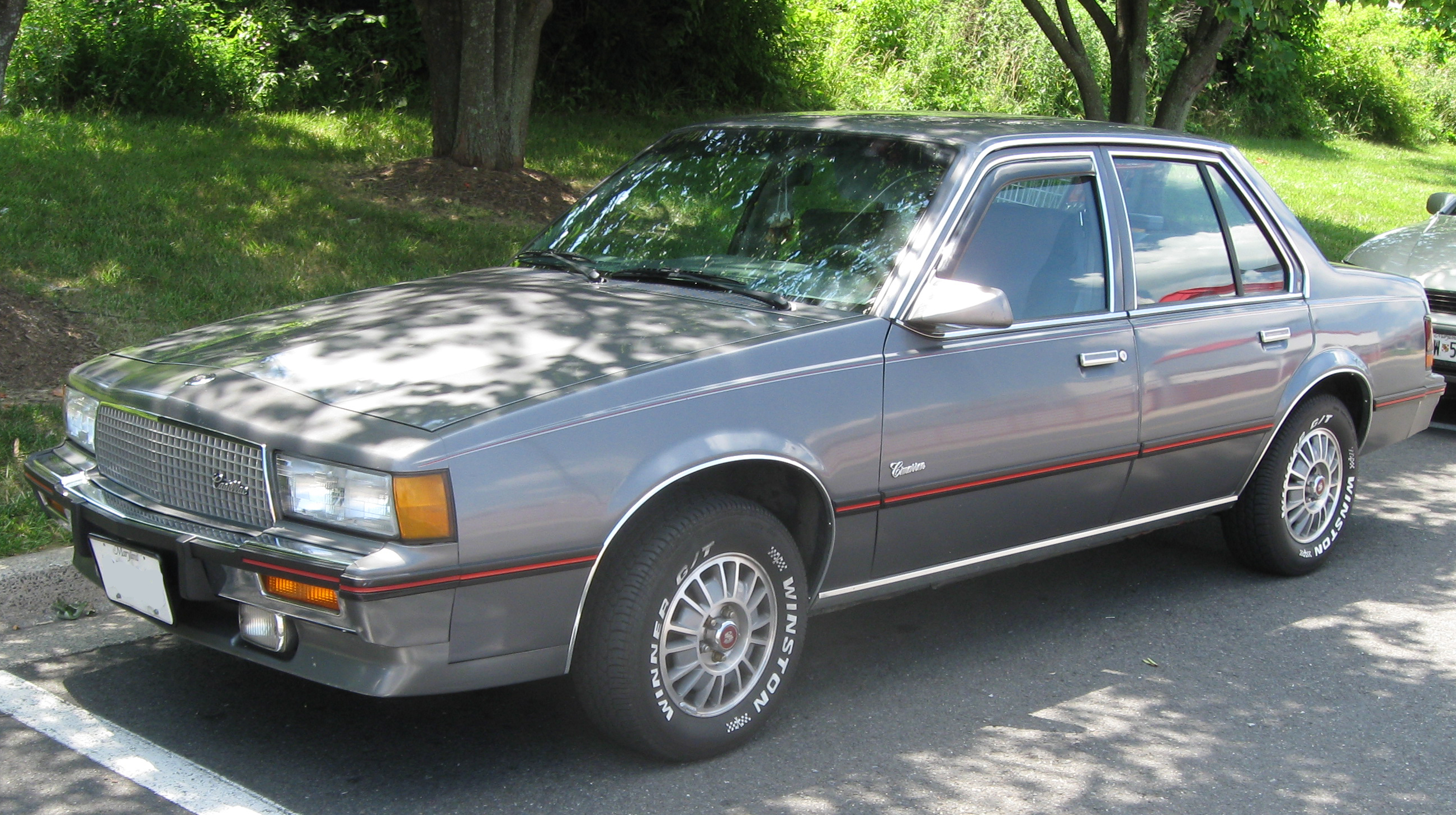 1985-1988 Cadillac Cimarron 2.8 photographed in Gaithersburg, Maryland, USA.